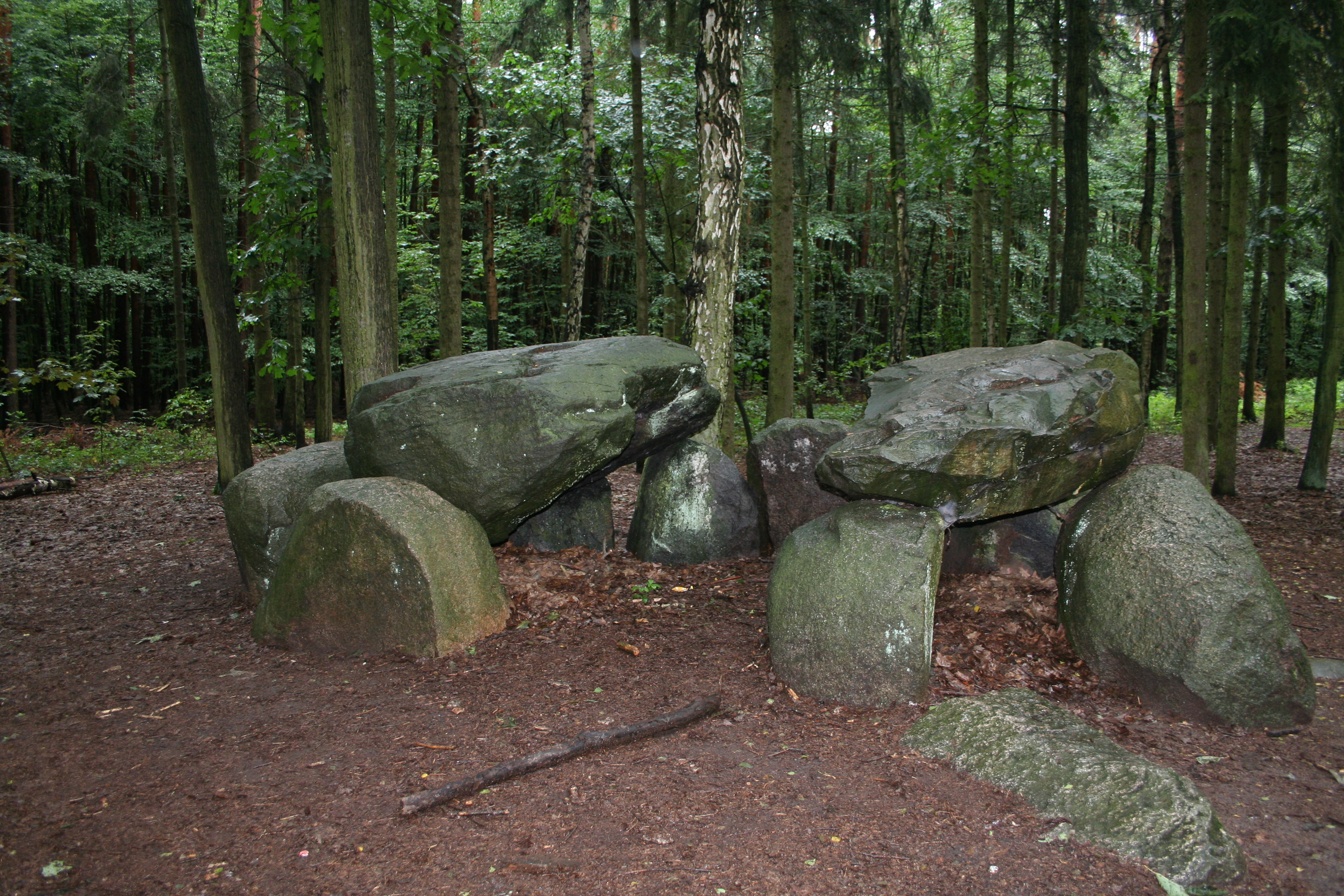 Dolmen “Teufelsküche” (“Devil's kitchen”) at Haldenslebener Forst